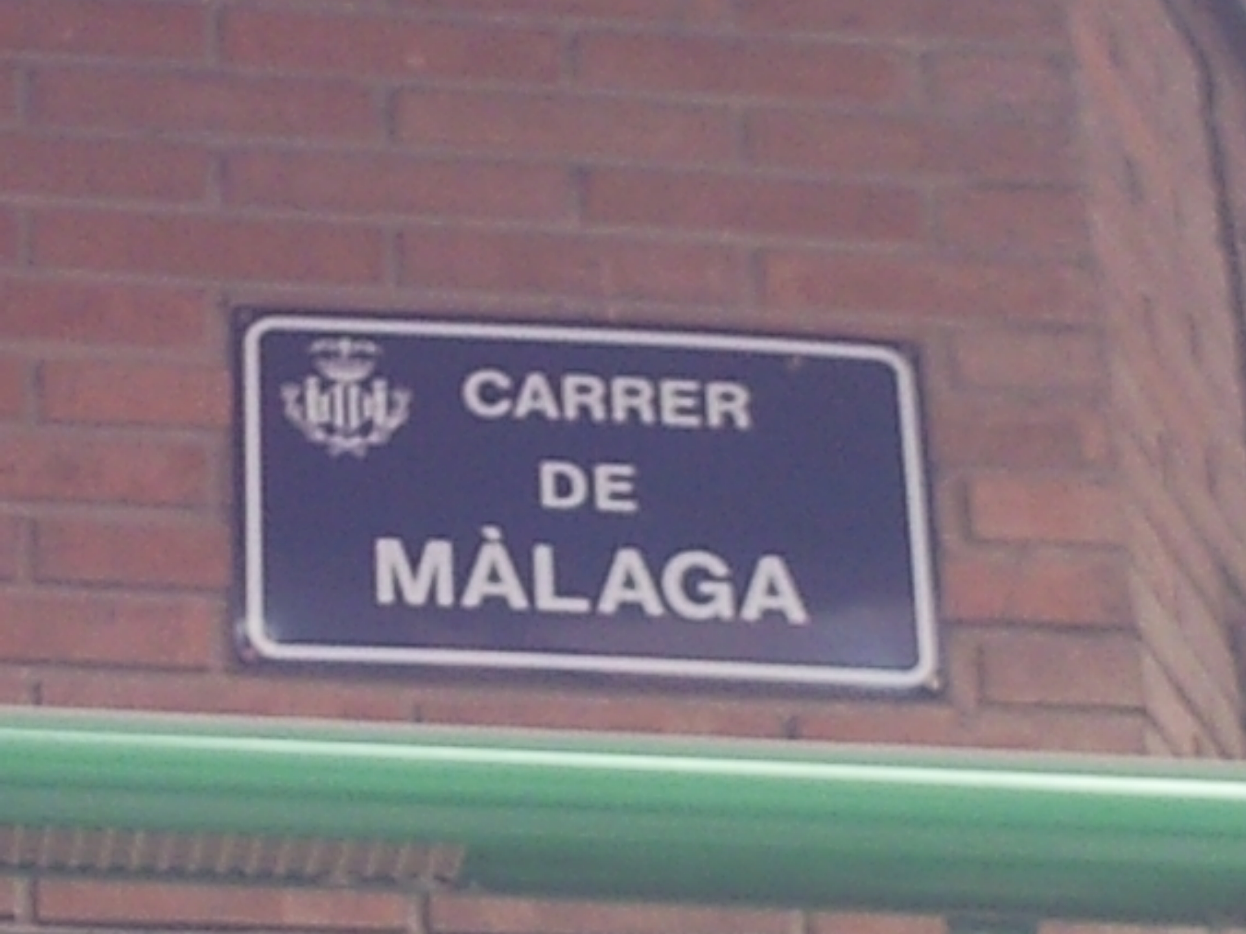 Malaga Street, Valencia, Spain